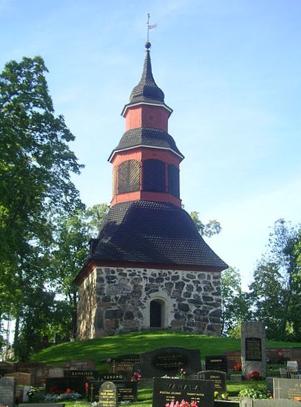 The belltower in Halikko, Finland.